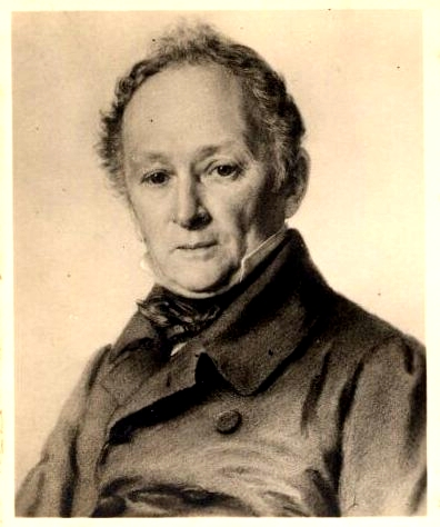 Gottlob Franz August Adolph Freiherr von Berlepsch (1790-1867), German forestry scientist